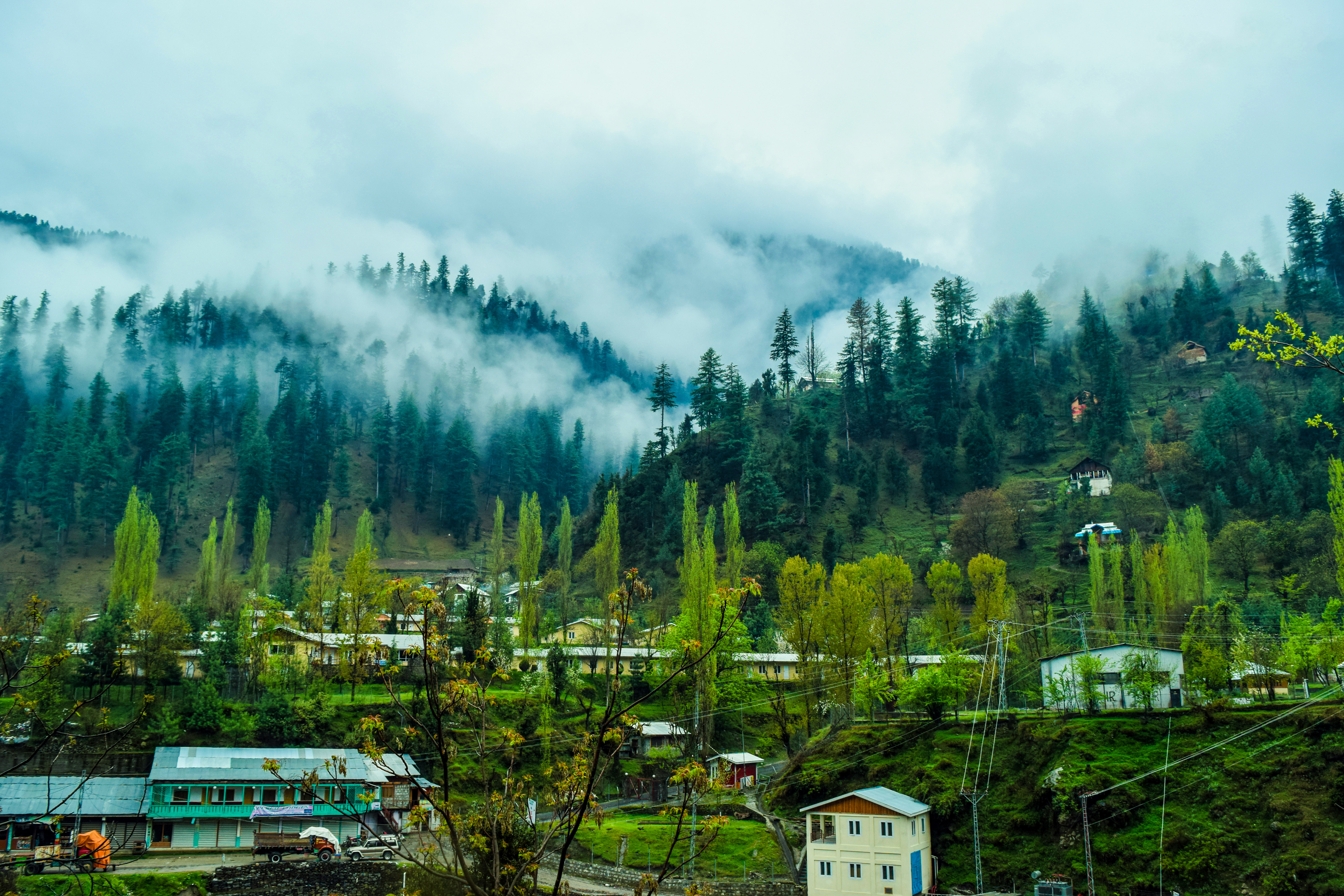 This picture shows the beautiful village of Kutton after the rain.